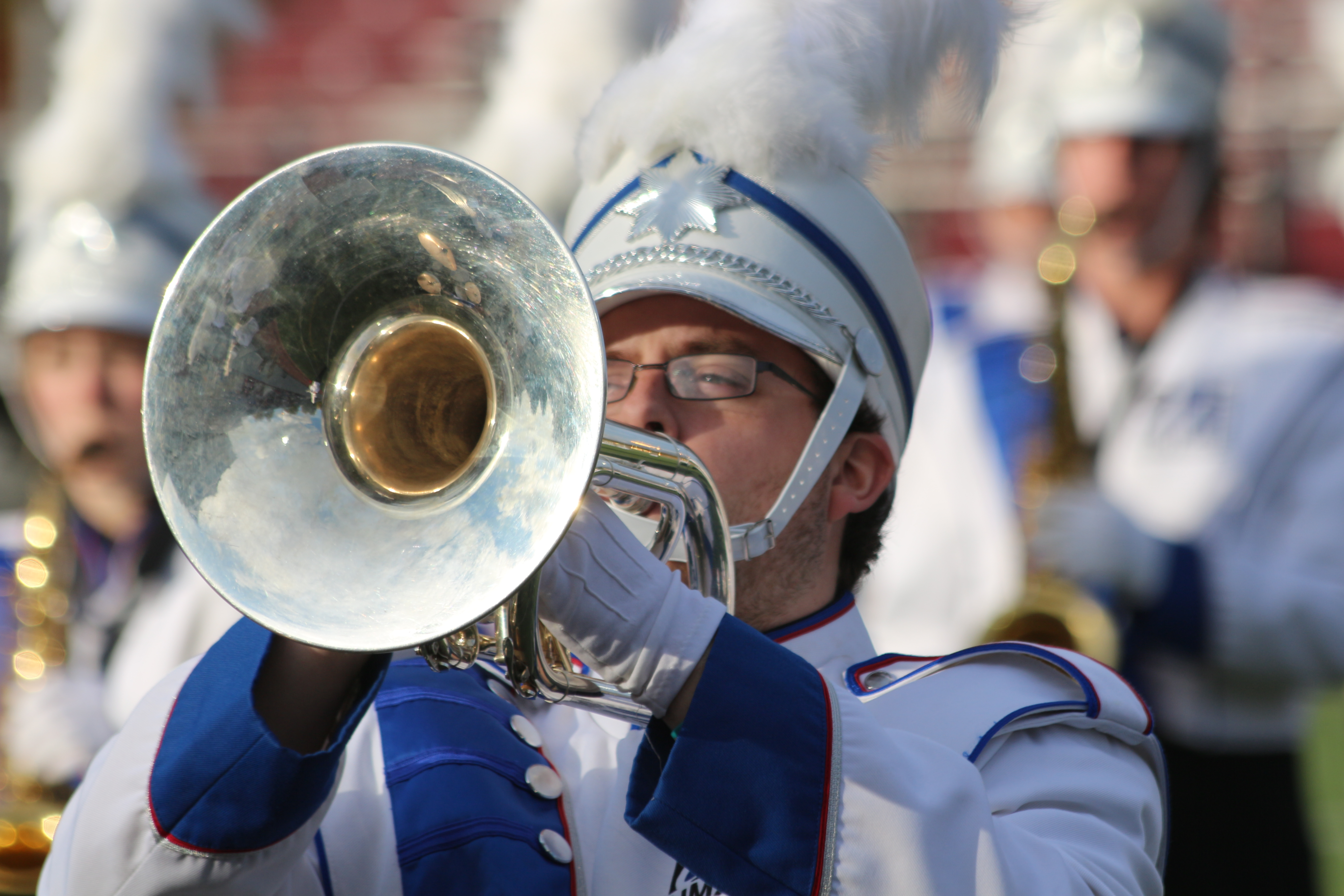 University of Massachusetts Lowell Riverhawk Marching Band mellophone player 2013.